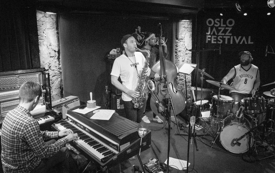 Lassen at the stage at Herr Nilsen. The concert was part of Oslo Jazzfestival and took place on 16. August 2017. Lineup: Harald Lassen (saxophone), Bram De Looze (piano), Stian Andersen (double bass) and Tore Flatjord (drums).